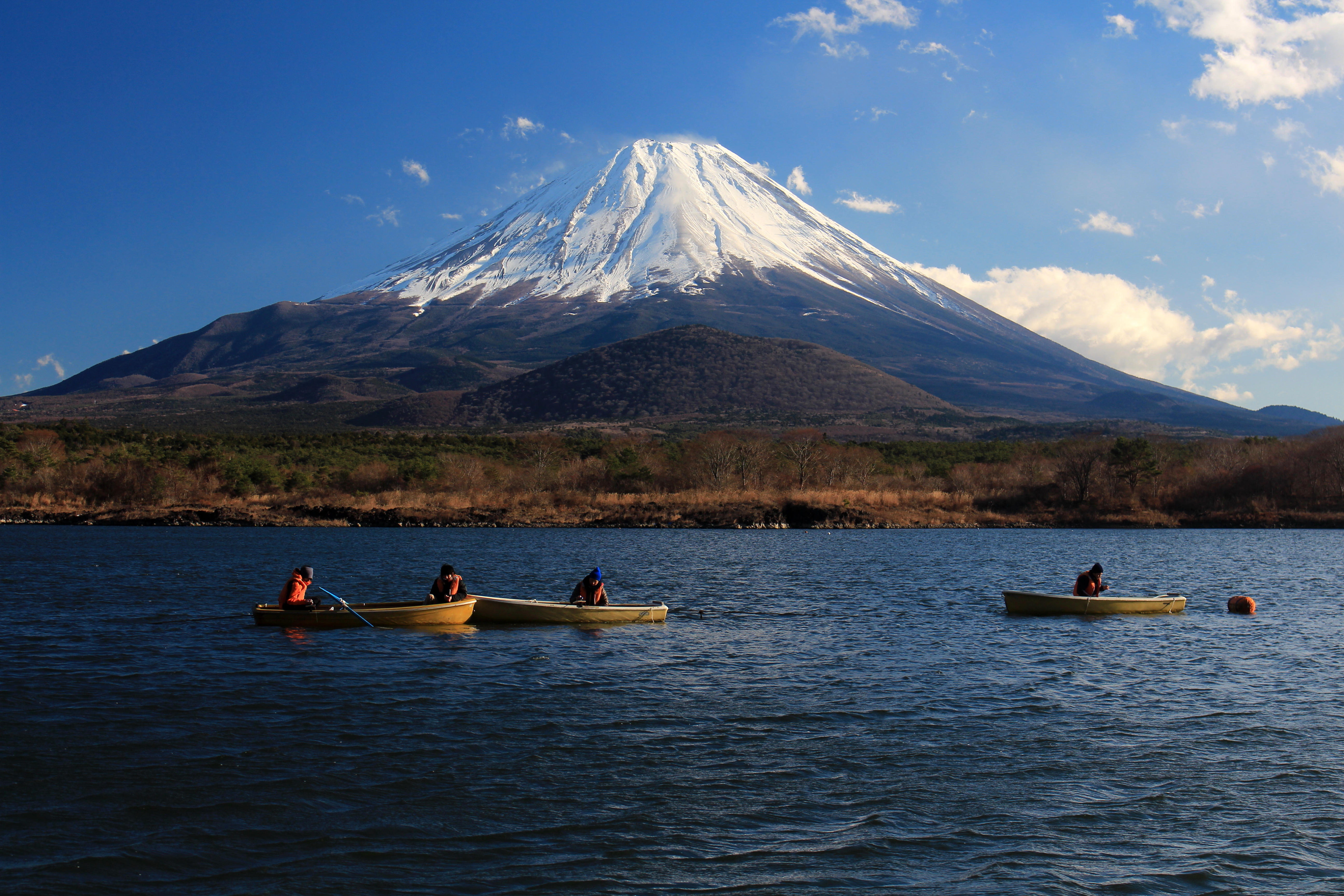 Mount Fuji from Lake Shōji in Fujikawaguchiko, Yamanashi prefecture, Japan.